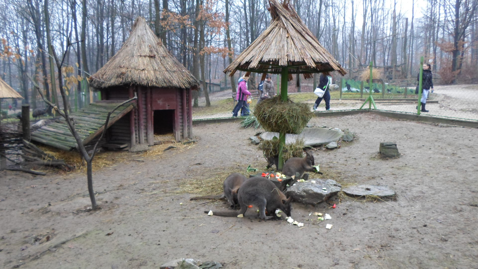 Bennett's wallaby in Miskolc Zoo